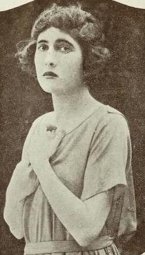 A young white woman wearing stage makeup, hands over chest, not smiling.